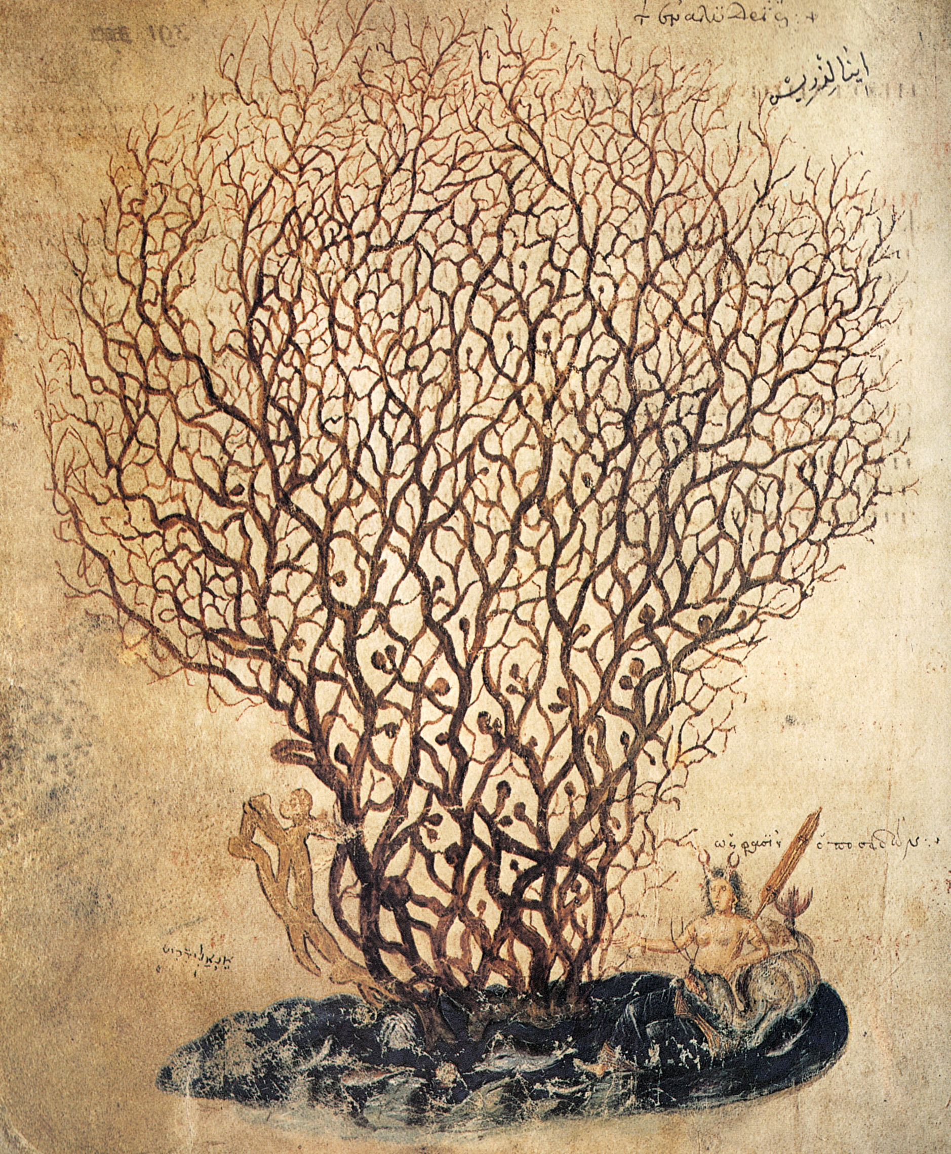 Illustration of Coral from the Vienna Dioscurides